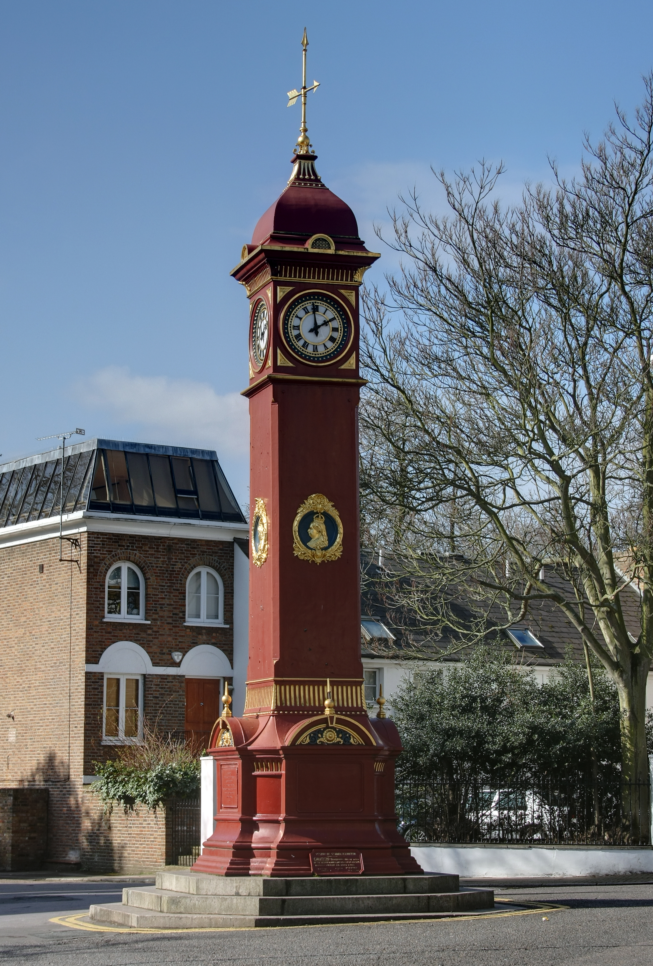 The Highbury Clock in Islington, London.